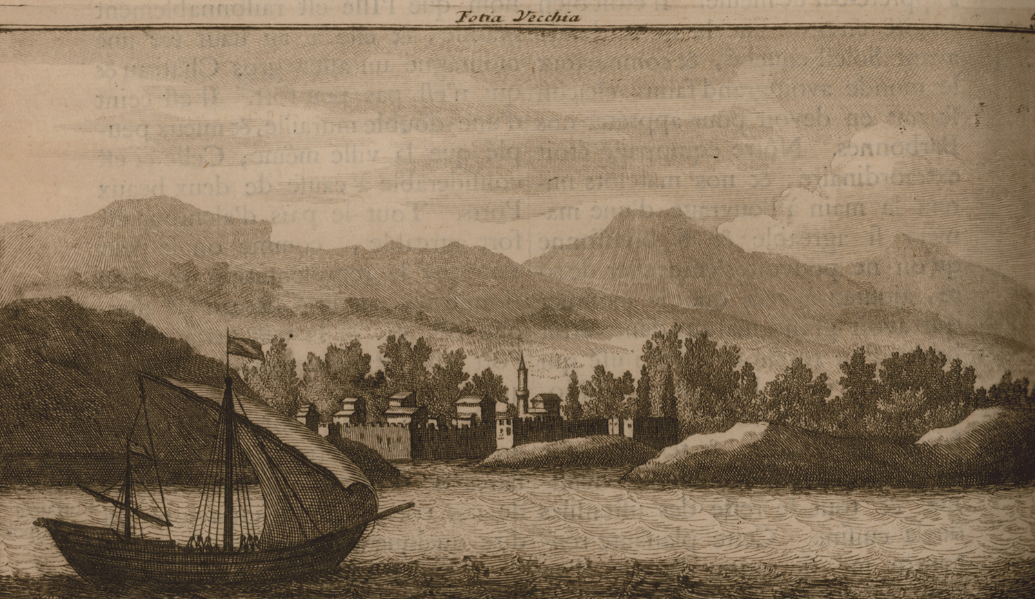 BRUYN, Cornelis de. Voyage au Levant, c’est-à-dire, dans les principaux endroits de l’Asie Mineure, dans les isles de Chio, Rhodes, et Chypre et.c., Paris, Guillaume Cavelier, 1714.